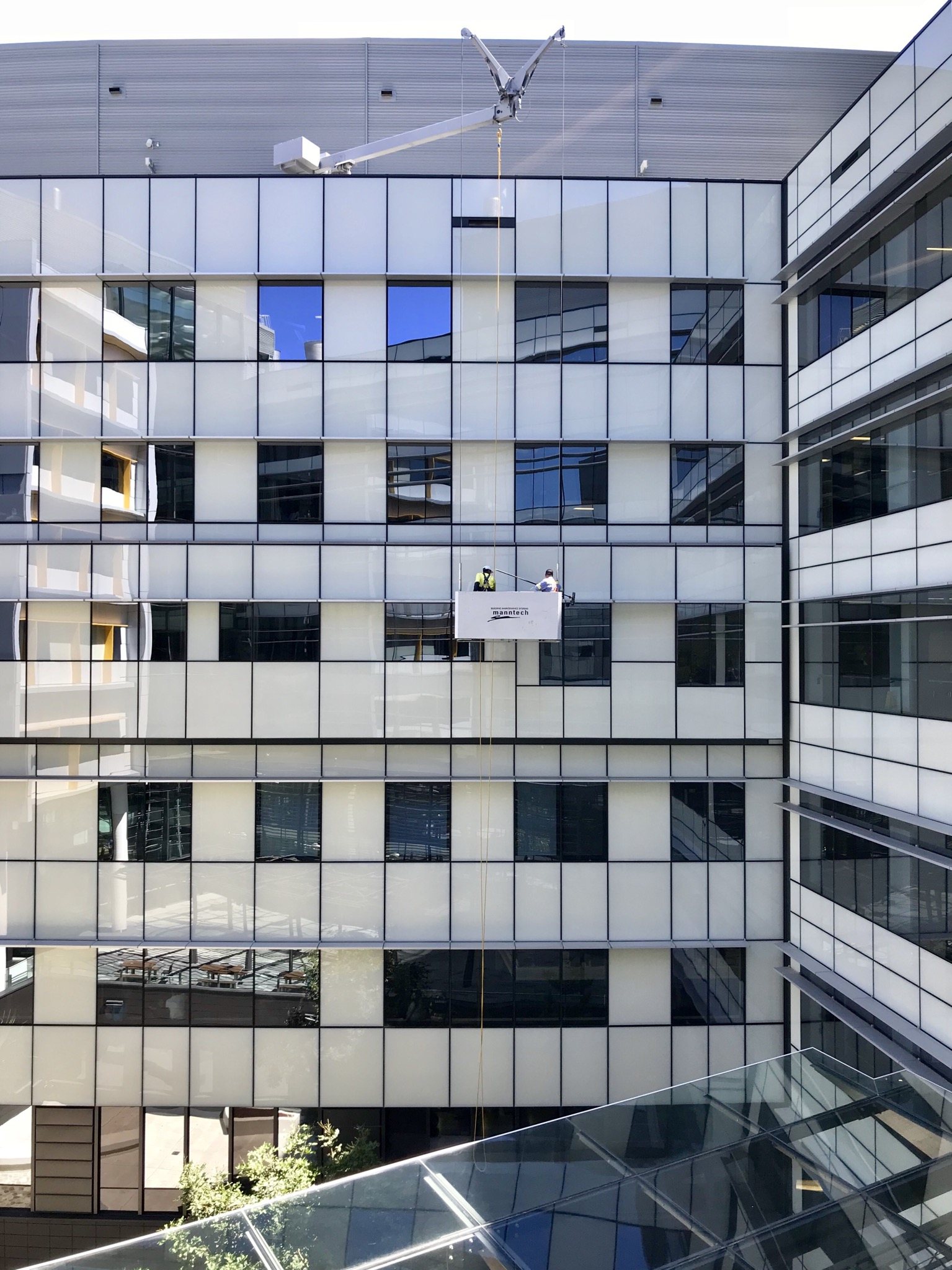 Cleaning building facade from the Building Maintanance Unit at the Gold Coast University Hospital